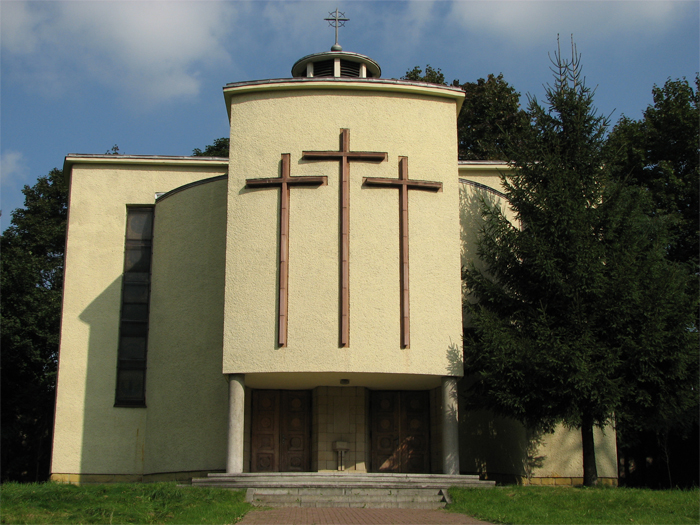 Calvary in Katowice Panewniki, Stations of the Cross - "Crucifixion: Jesus is nailed to the cross", "Jesus dies on the cross" and "Deposition". Completed in 1951. Project of Jan Krug and Tadeusz Brzoza.